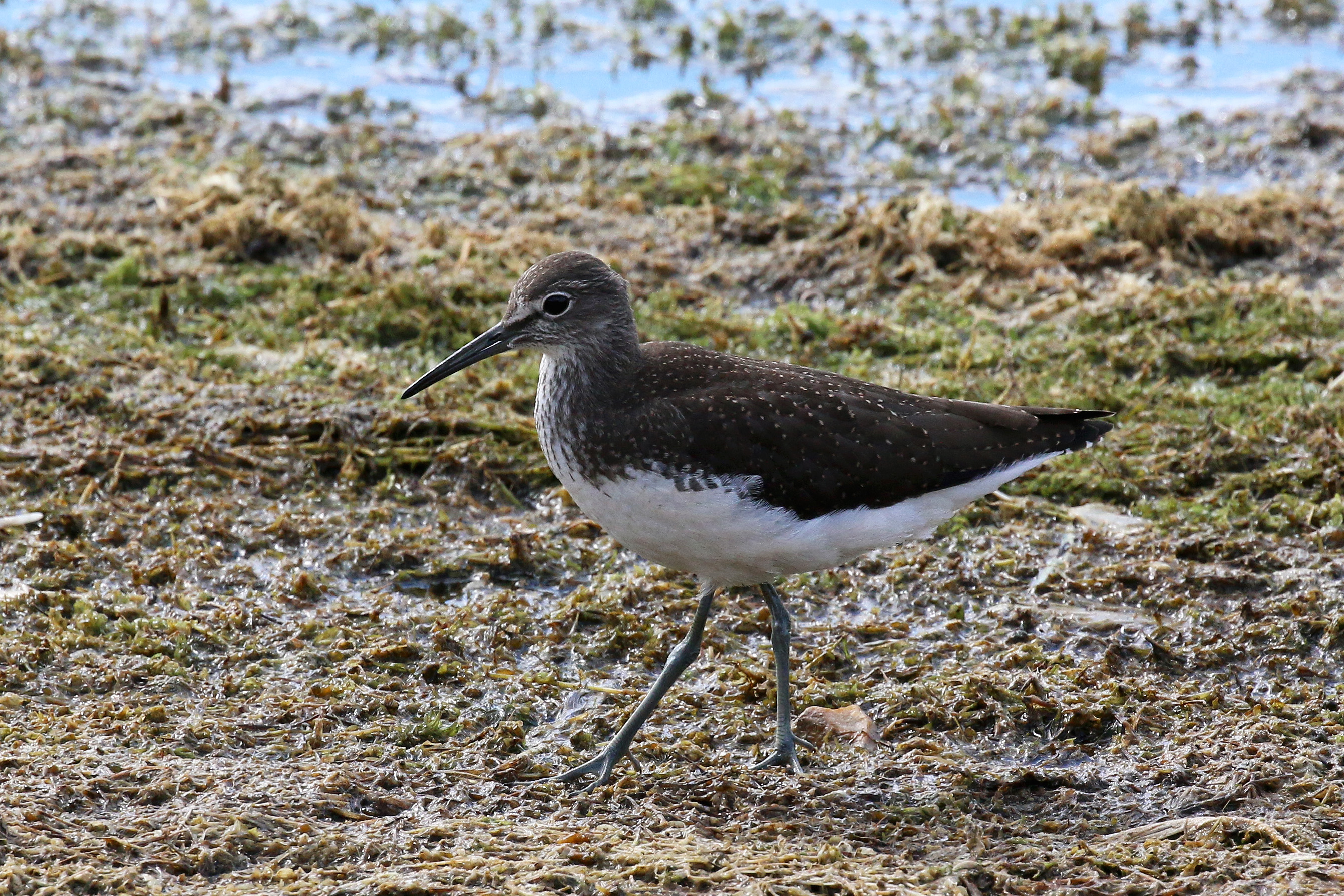 Green sandpiper (Tringa ochropus), Standlake Pit 60, Oxfordshire